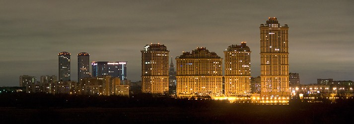 "Alye Parusa" residential apartments, Shchukino